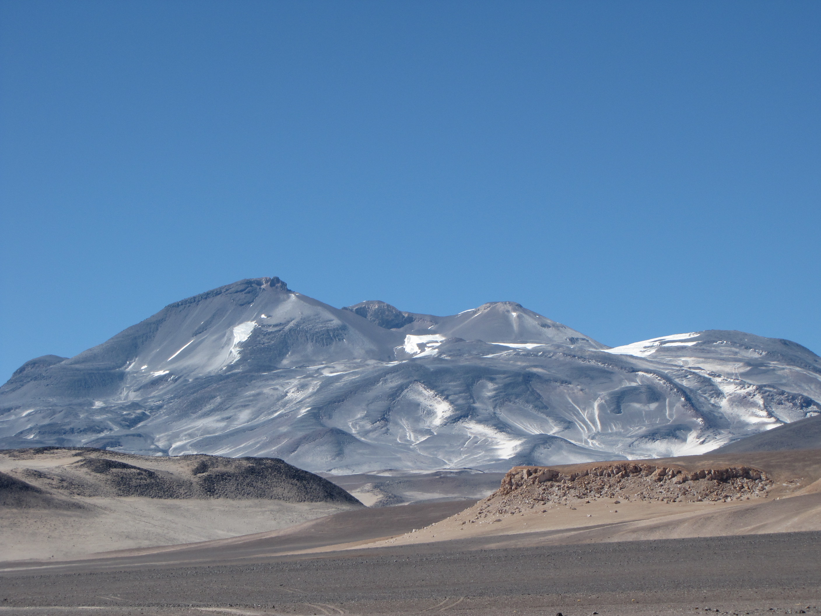 Ojos del Salado on the Argentina-Chile border, the world's highest volcano at 6,893 m (22,615 ft).